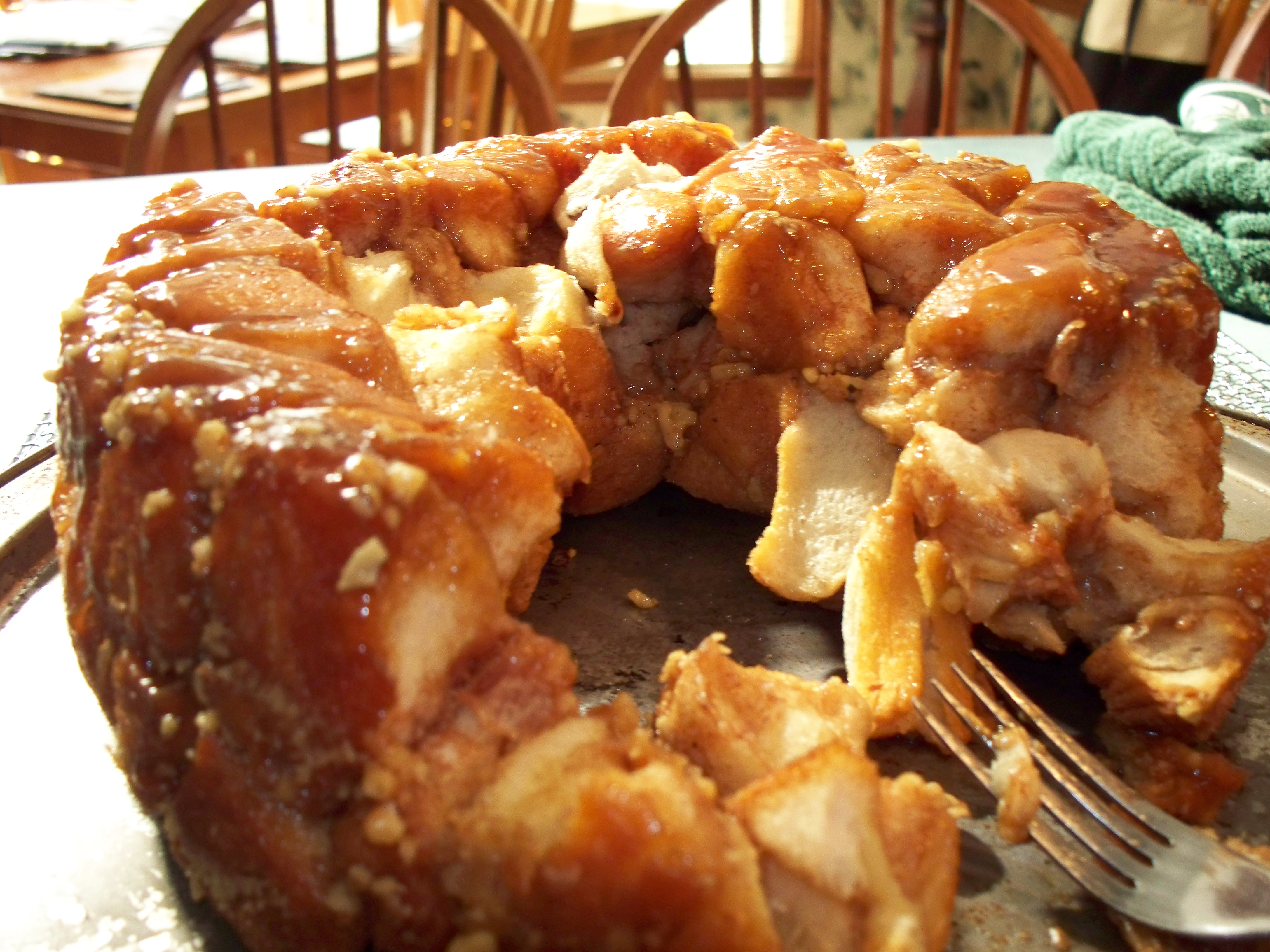 An image of monkey bread.